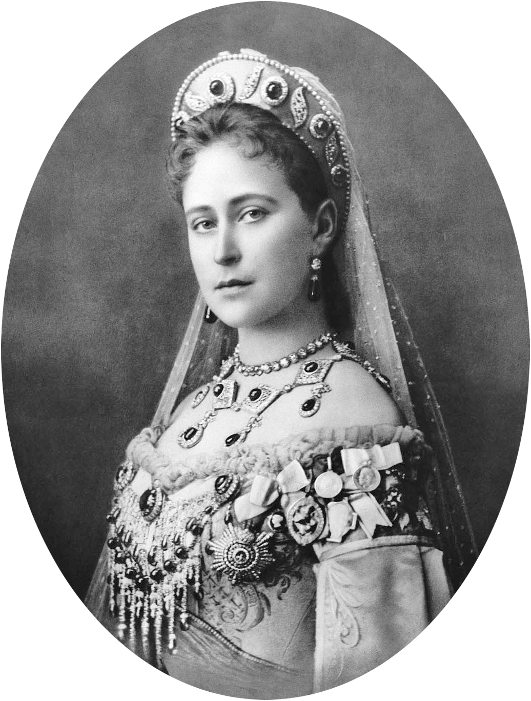 Portrait of the Grand Duchess Elizabeth (1864-1918)